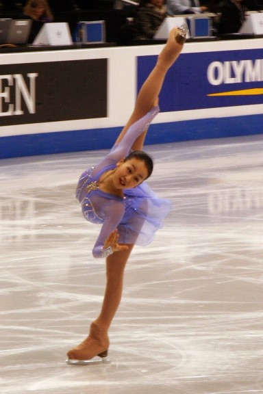 Mao Asada performs a spiral during her short program at the 2009 World Figure Skating Championships.